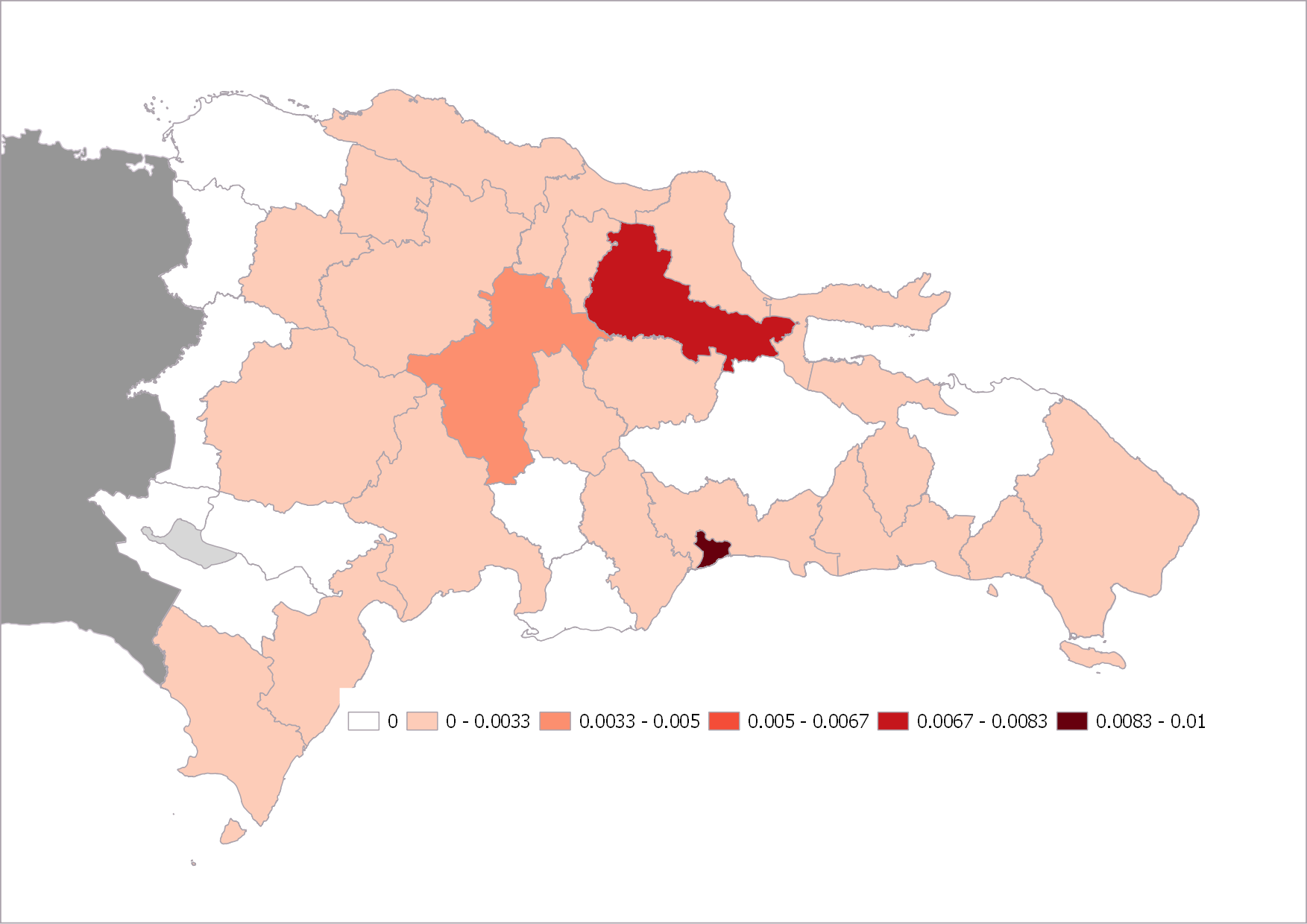 COVID-19 cases per 100 thousand inhabitants in the Dominican Republic. Original had data of 28 March 2020, but new versions will update daily as new stats become available.